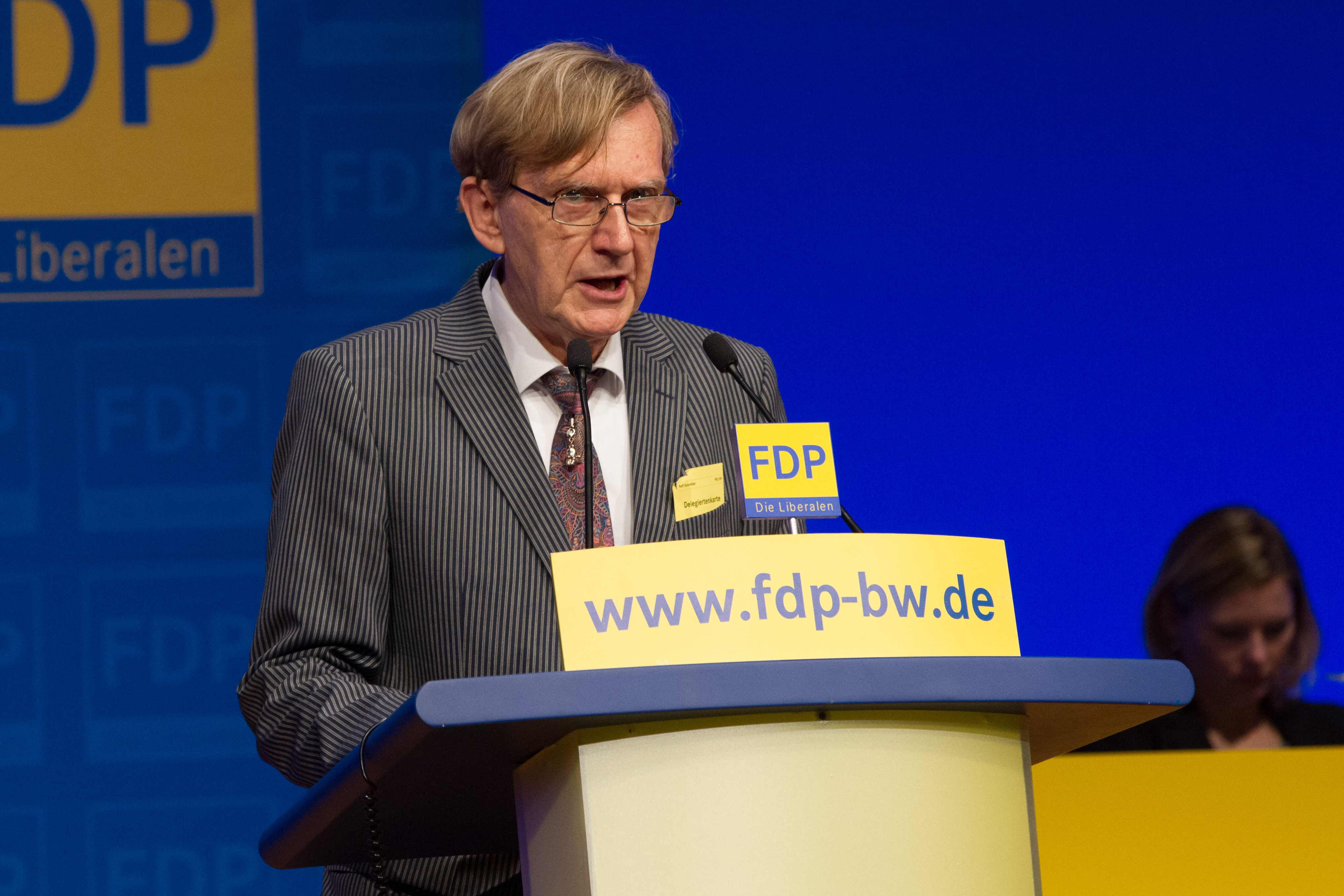 Series: 112th regular party convention of the FDP Baden-Württemberg in Stuttgart on January 5th, 2015 Image: Rolf Eckmiller